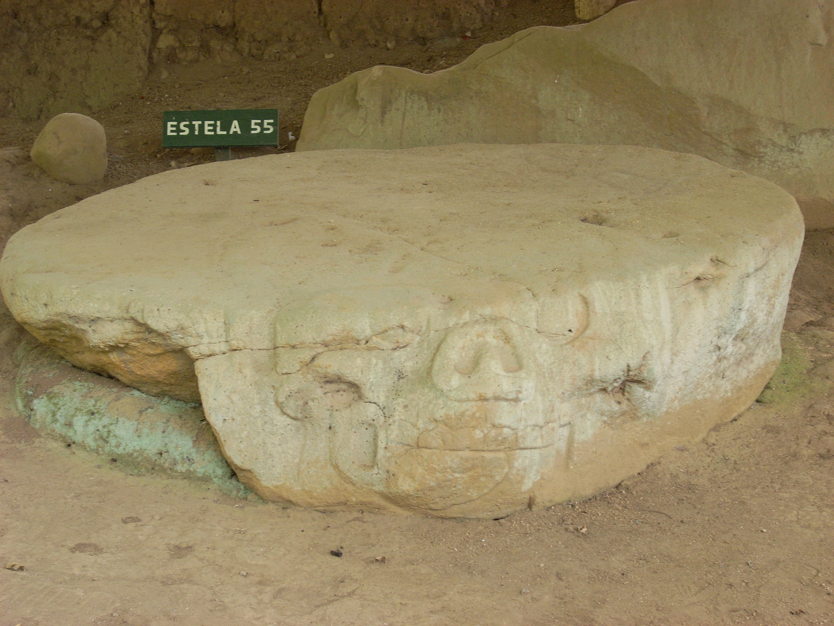 Altar 28 at Takalik Abaj, with skull sculpture.